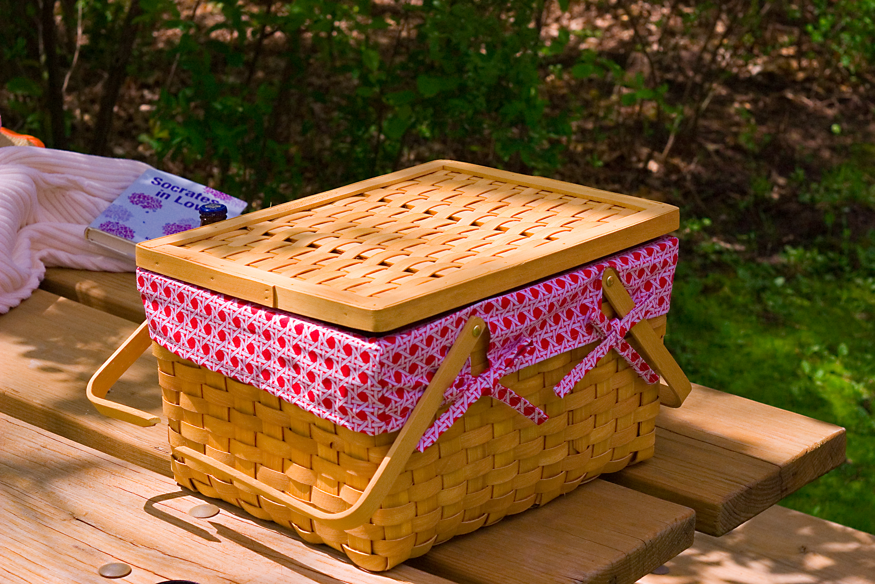 Picnic basket. We are now obsessed with picnicking. Maybe we should have shelled out for a sturdier basket, though.